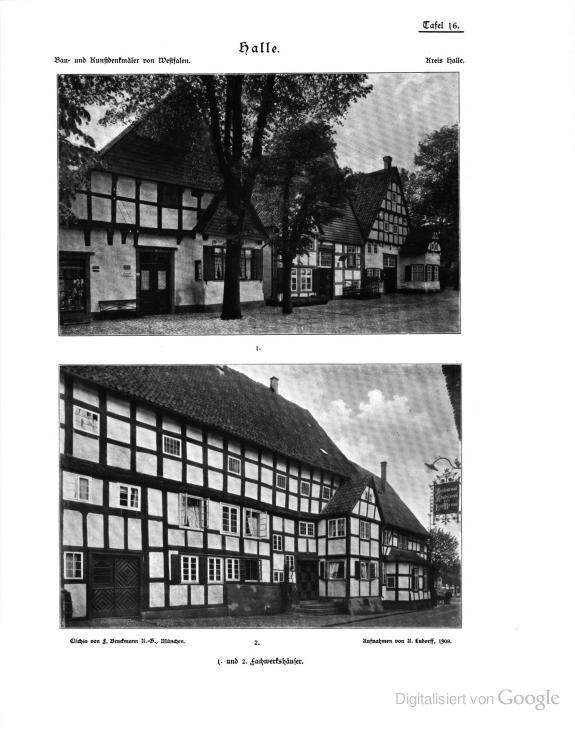 Photos from Halle around 1908 from book series Bau- und Kunstdenkmäler von Westfalen (english: Memorable architecture and Art in Westphalia) by Albert Ludorff. These pictures show motives from Halle what is today in District of Gütersloh, North Rhine-Westphalia, Germany but used to be Kreis Halle in Prussian Province of Westphalia then.